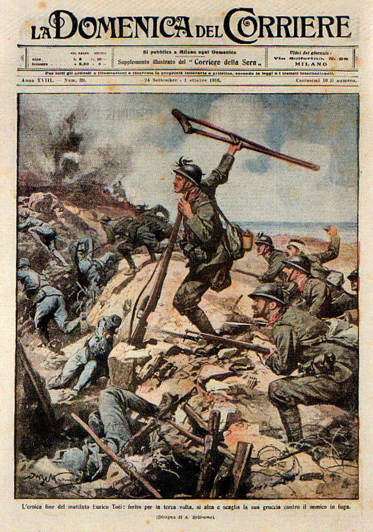 Scan of the first page of the edition of the "La Domenica del Corriere", an Italian magazine, with a drawing of Achille Beltrame depicting Enrico Toti, patriot and hero of World War I